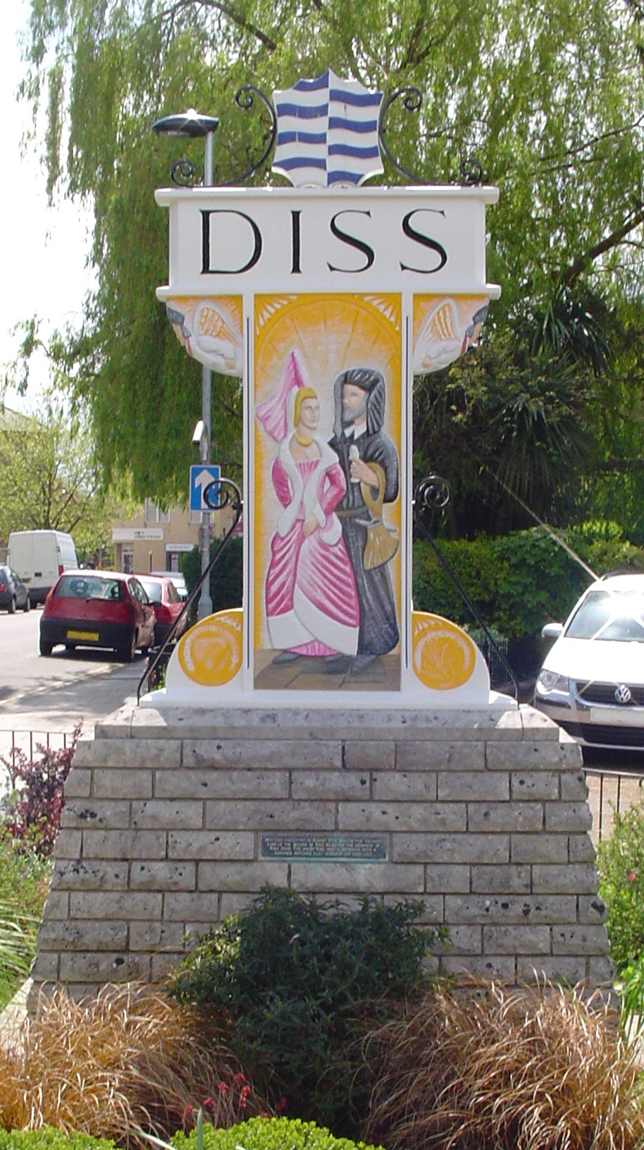 Signpost in Diss